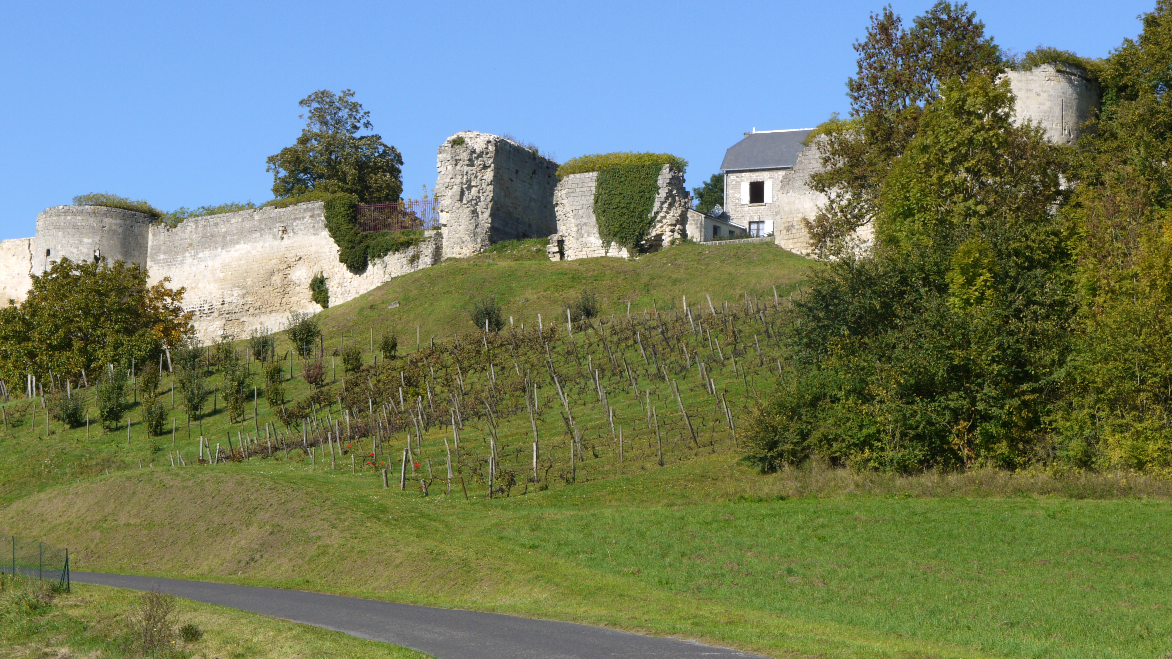 Ramparts of Coucy le Chateau l Auffrique, Aisne, France